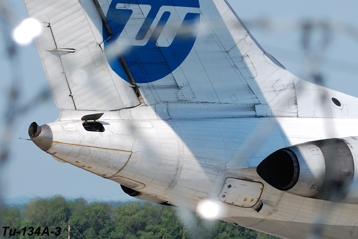 Tail of Tu-134A-3 airliner. Air intake of aux power unit is opened